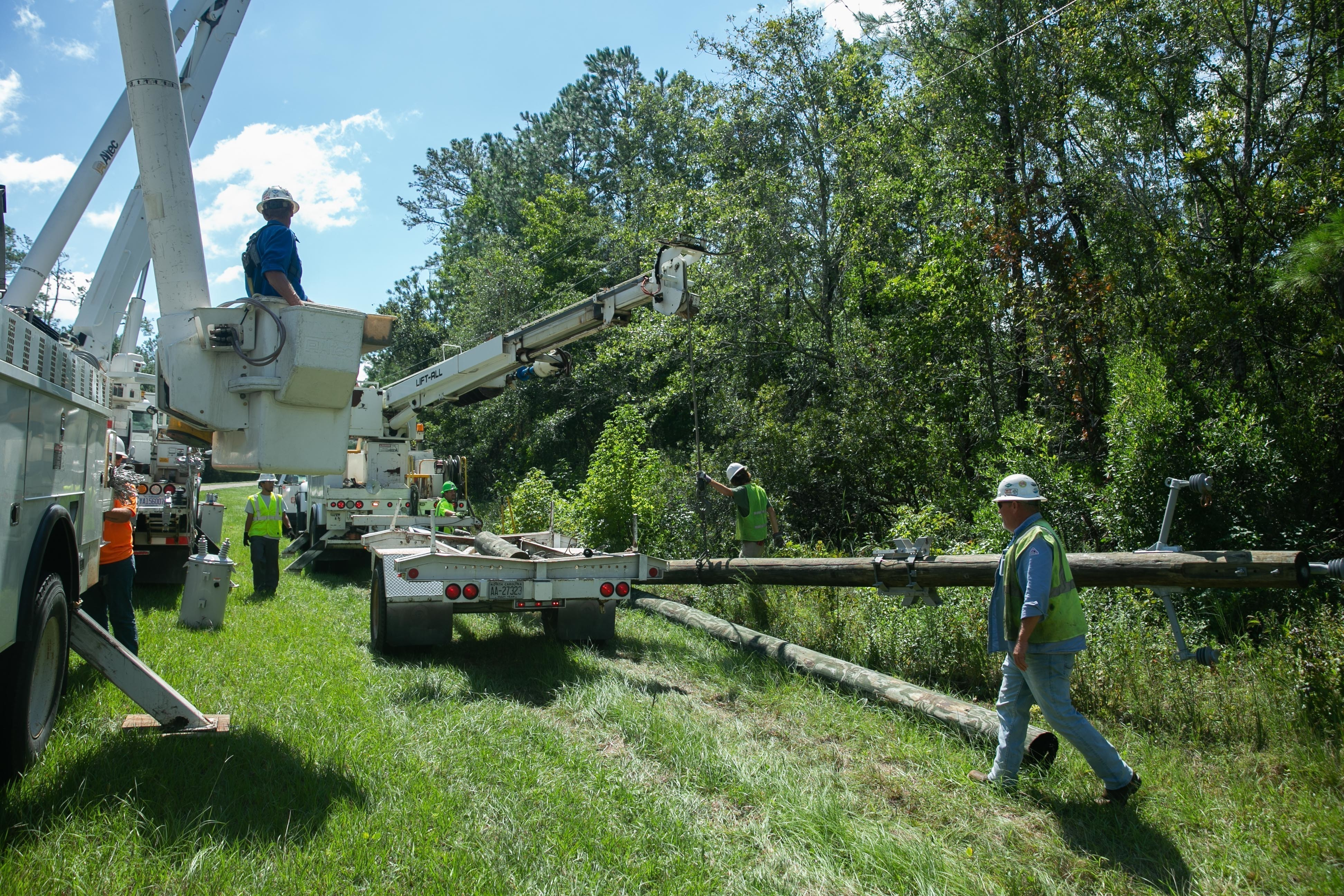 Contracted construction workers replace a damaged power line at Marine Corps Base Camp Lejeune, North Carolina, Sept. 6, 2019. Hurricane Dorian passed by the coast of North Carolina resulting in powerful winds and heavy rain which caused light damage to base facilities.